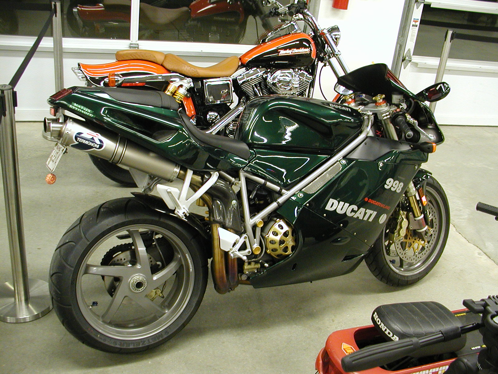 Ducati 998, special edition Matrix, in Barber Motorcycle Museum